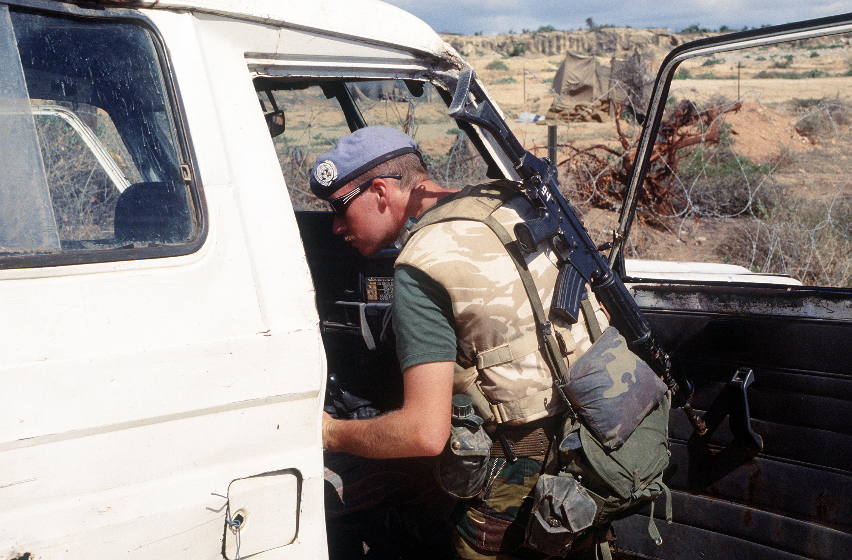 A Belgian soldier performs a security check on a vehicle trying to enter the compound in Kismayo. The Belgian contingent is part of the United Nations Forces in Somalia in support of OPERATION CONTINUE HOPE.